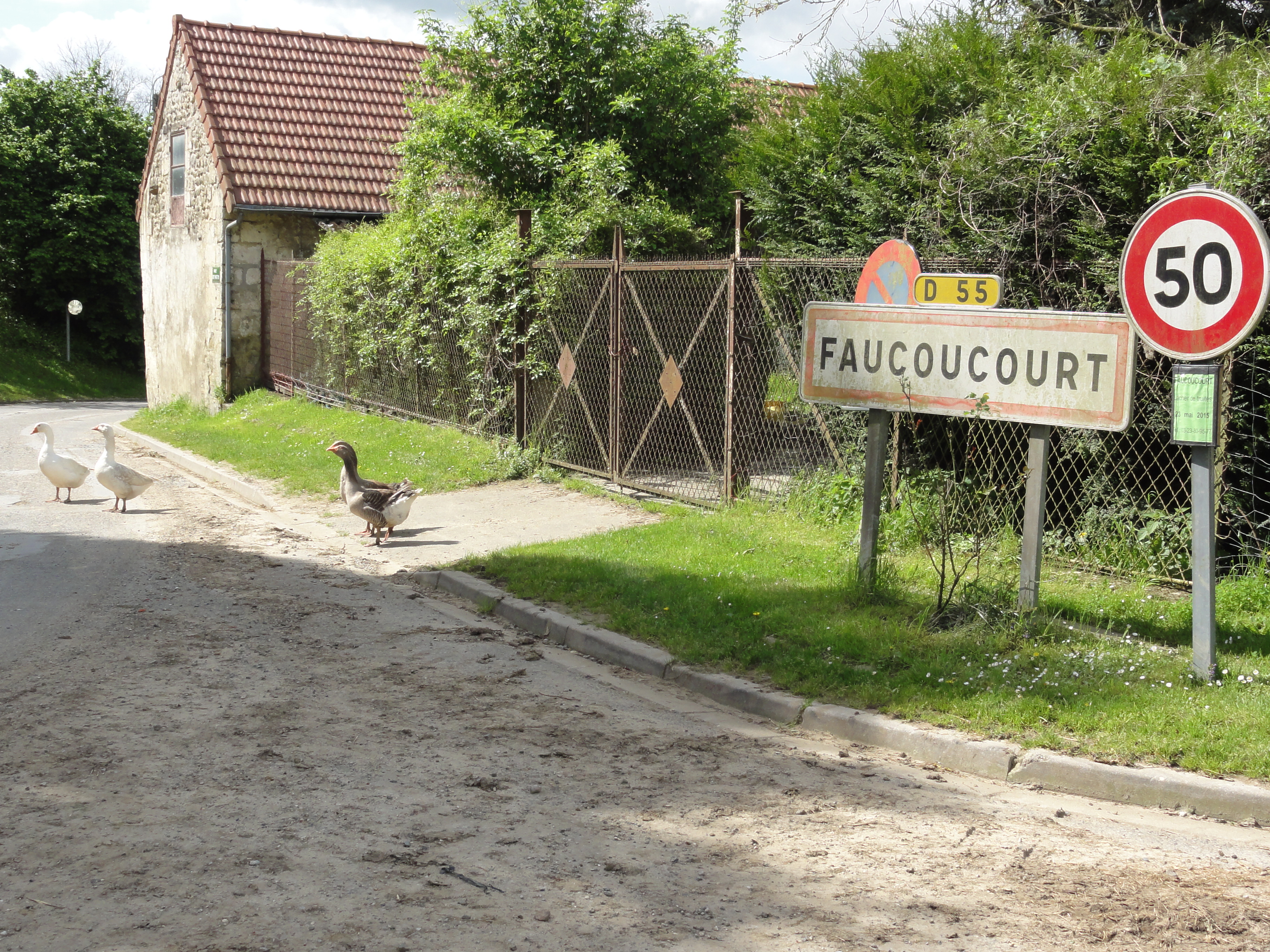 Faucoucourt (Aisne) city limit sign